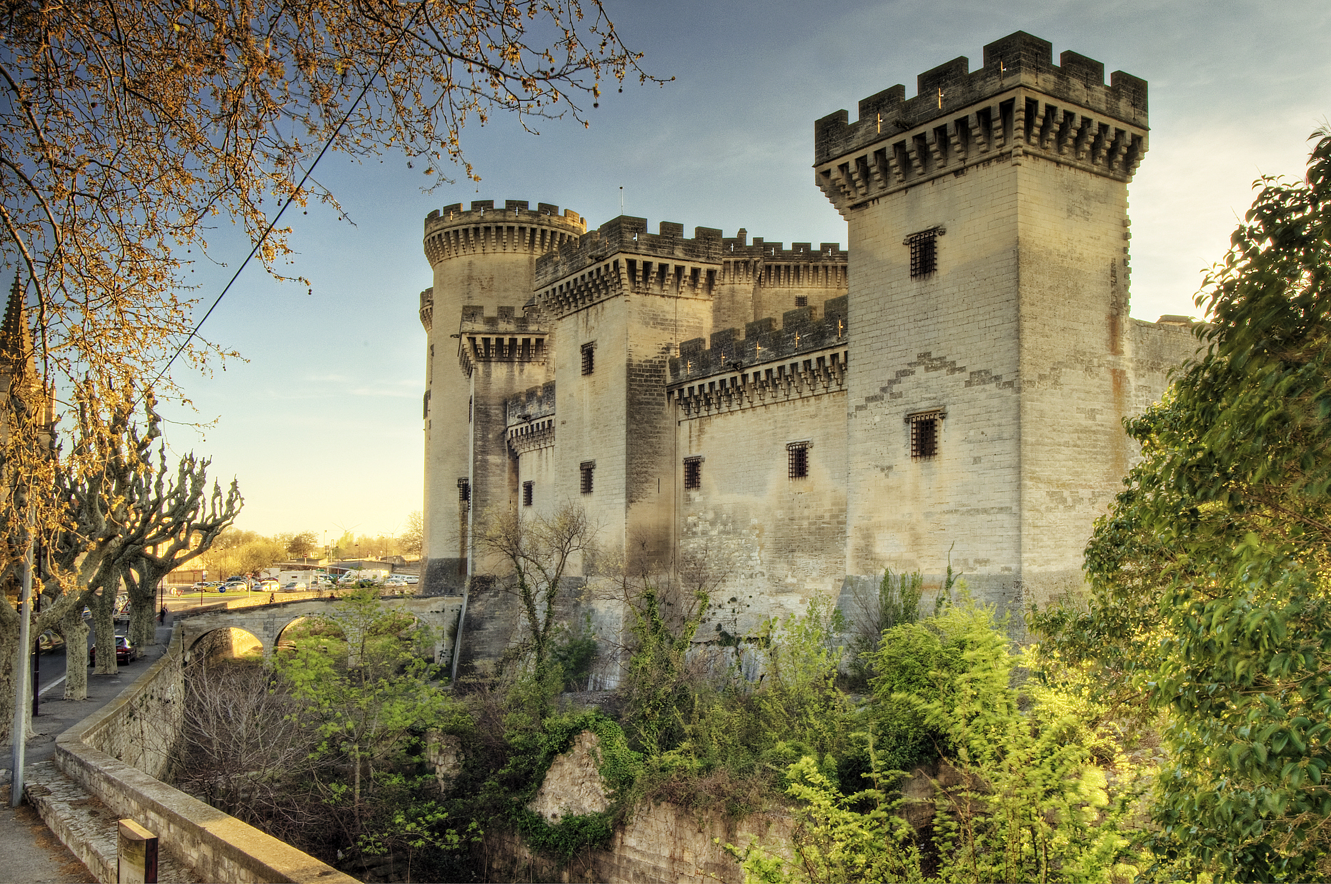 Tarascon Castle, also known as château du roi René, north-western aspect